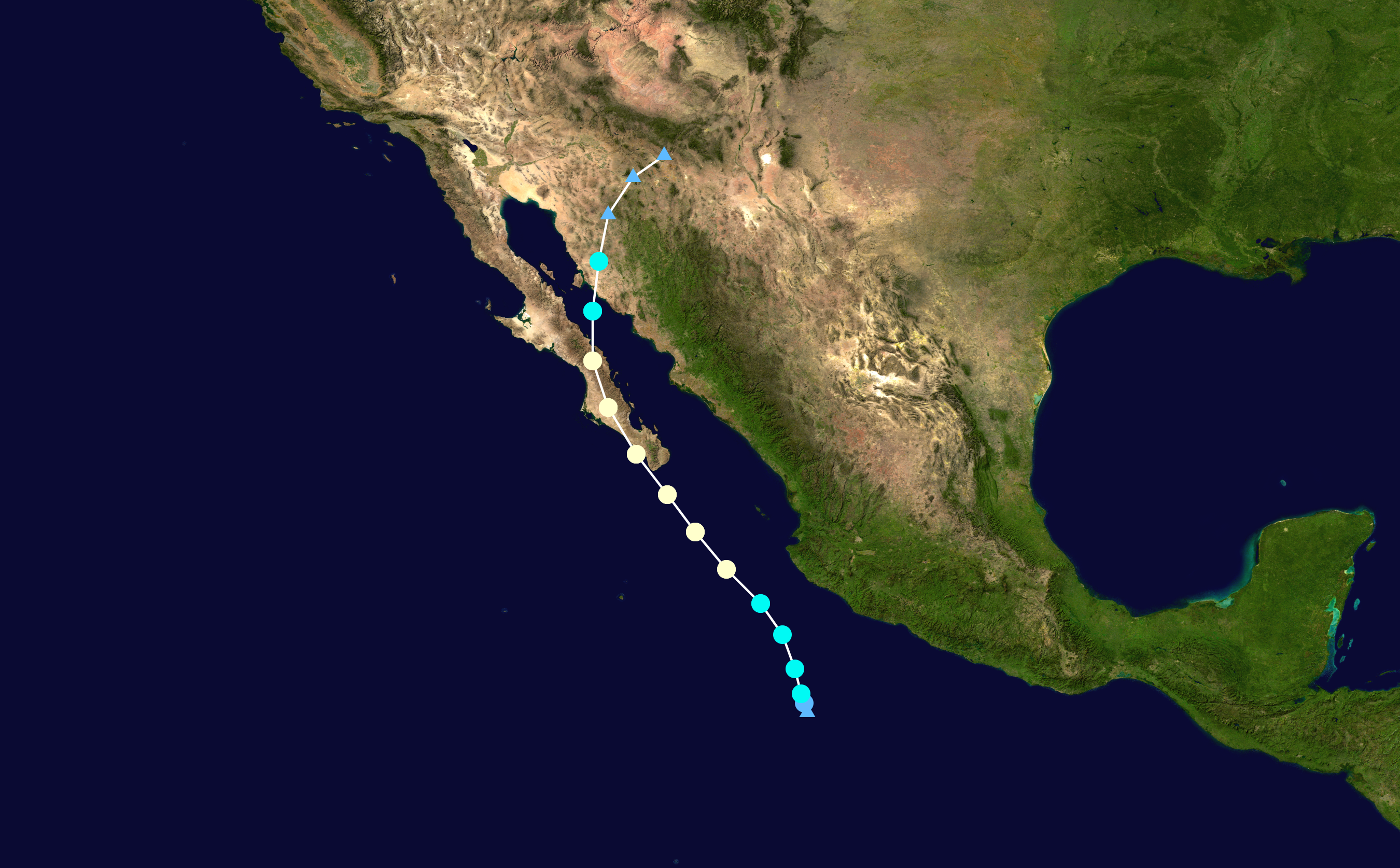 Track map of Hurricane Newton of the 2016 Pacific hurricane season. The points show the location of the storm at 6-hour intervals. The colour represents the storm's maximum sustained wind speeds as classified in the Saffir–Simpson scale (see below), and the shape of the data points represent the nature of the storm, according to the legend below. Saffir–Simpson scale Tropical depression≤38 mph≤62 km/h Category 3111–129 mph178–208 km/h Tropical storm39–73 mph63–118 km/h Category 4130–156 mph209–251 km/h Category 174–95 mph119–153 km/h Category 5≥157 mph≥252 km/h Category 296–110 mph154–177 km/h Unknown Storm typeTropical cycloneSubtropical cycloneExtratropical cyclone / Remnant low / Tropical disturbance